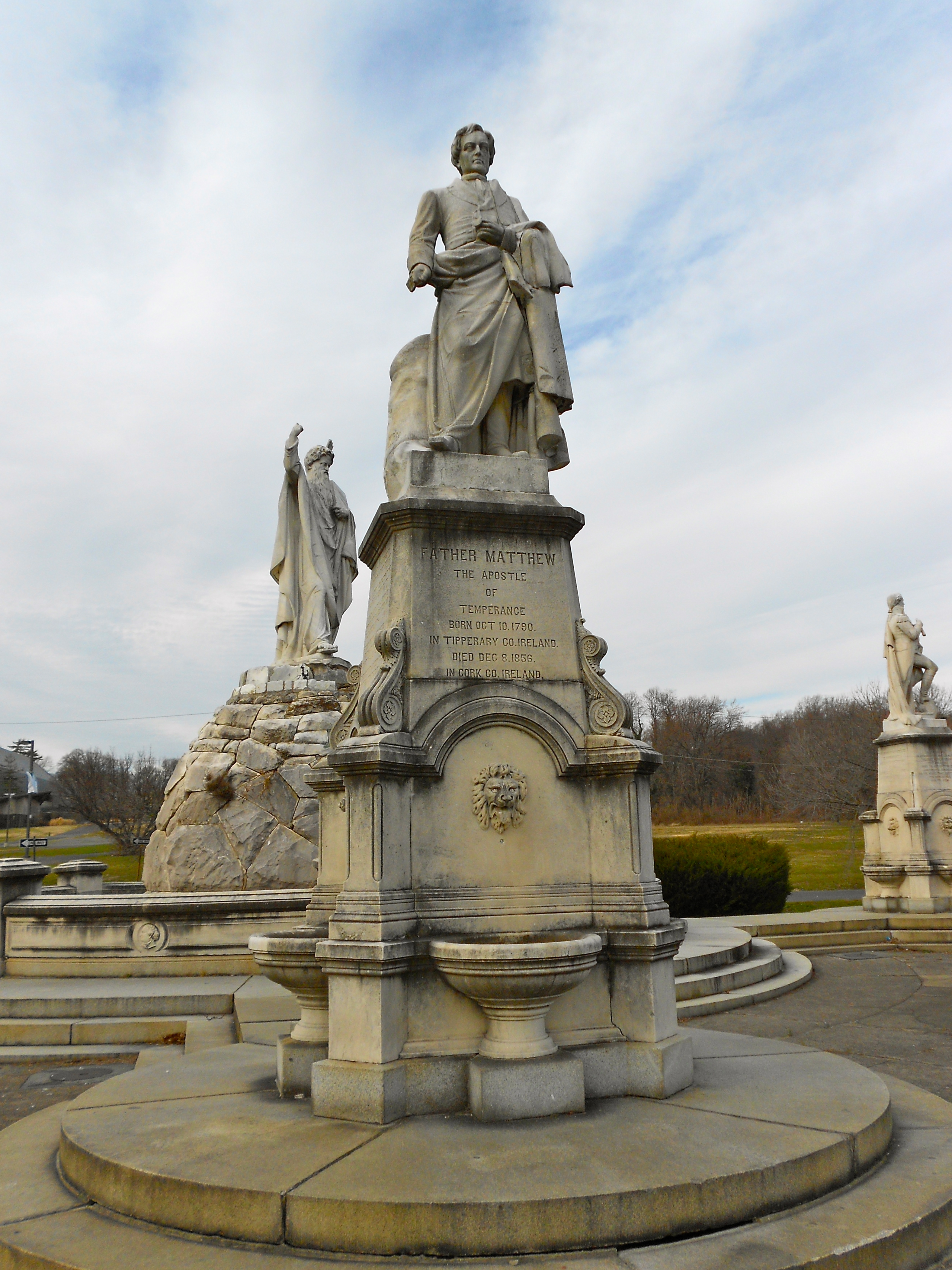 Statue of Father Matthew of County Tyrone Ireland, part of the Catholic Total Abstinence Fountain in Fairmount Park, Philadelphia. Fountain constructed in 1876, sculptor Herman Kirn at Avenue of the Republic & States Street. Marble sculptures with granite bases, Smithsonion reference IAS 75009303